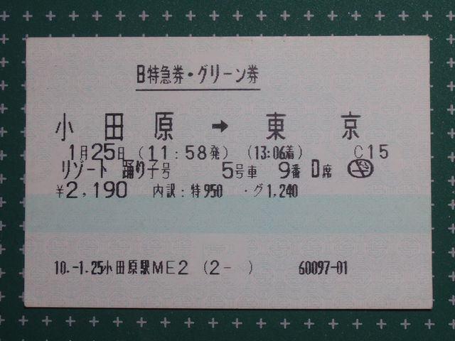 Limited Express Ticket for Reservation seat Green Car at 1998.